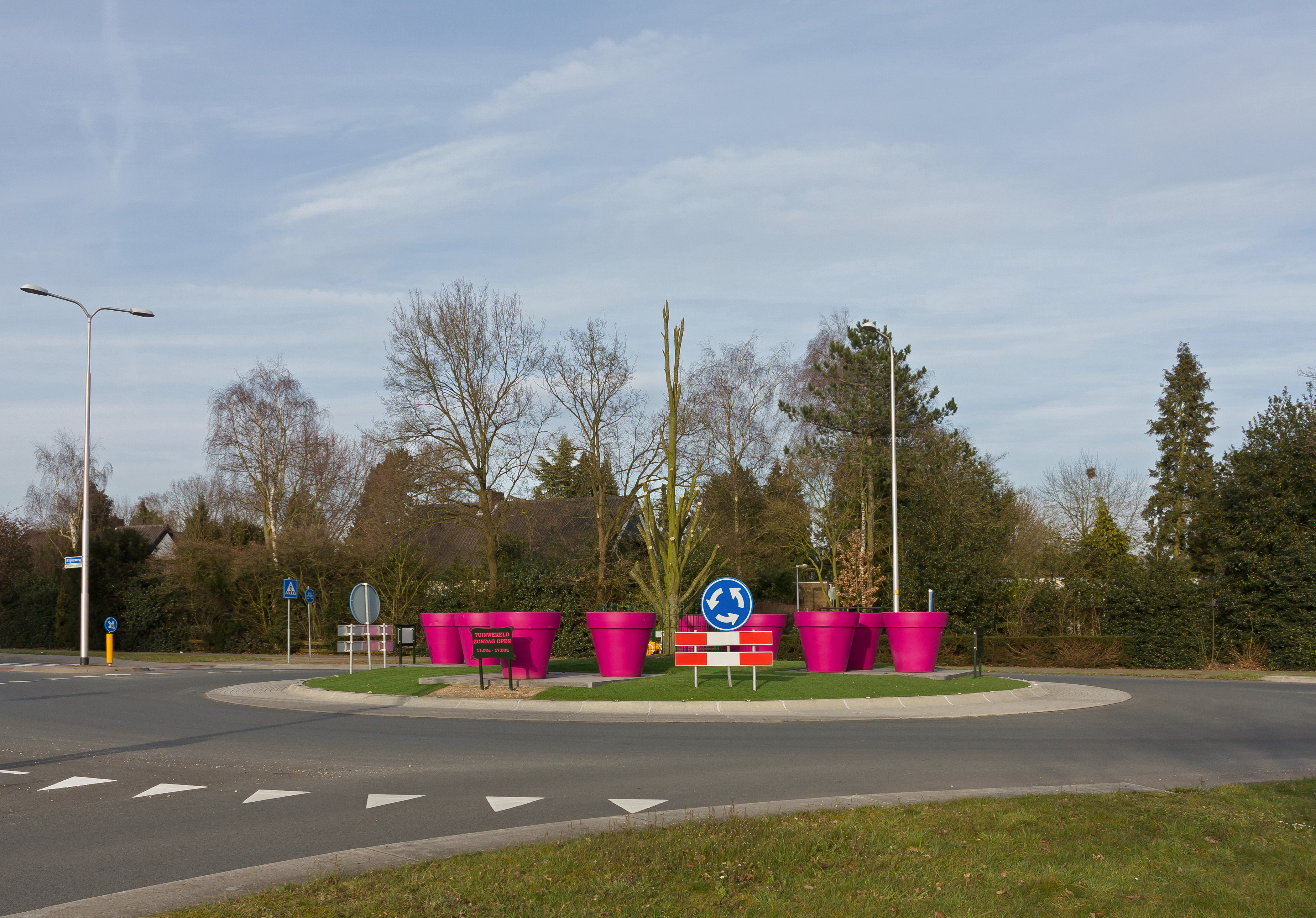 Malden, roundabout at de Grootveldschelaan